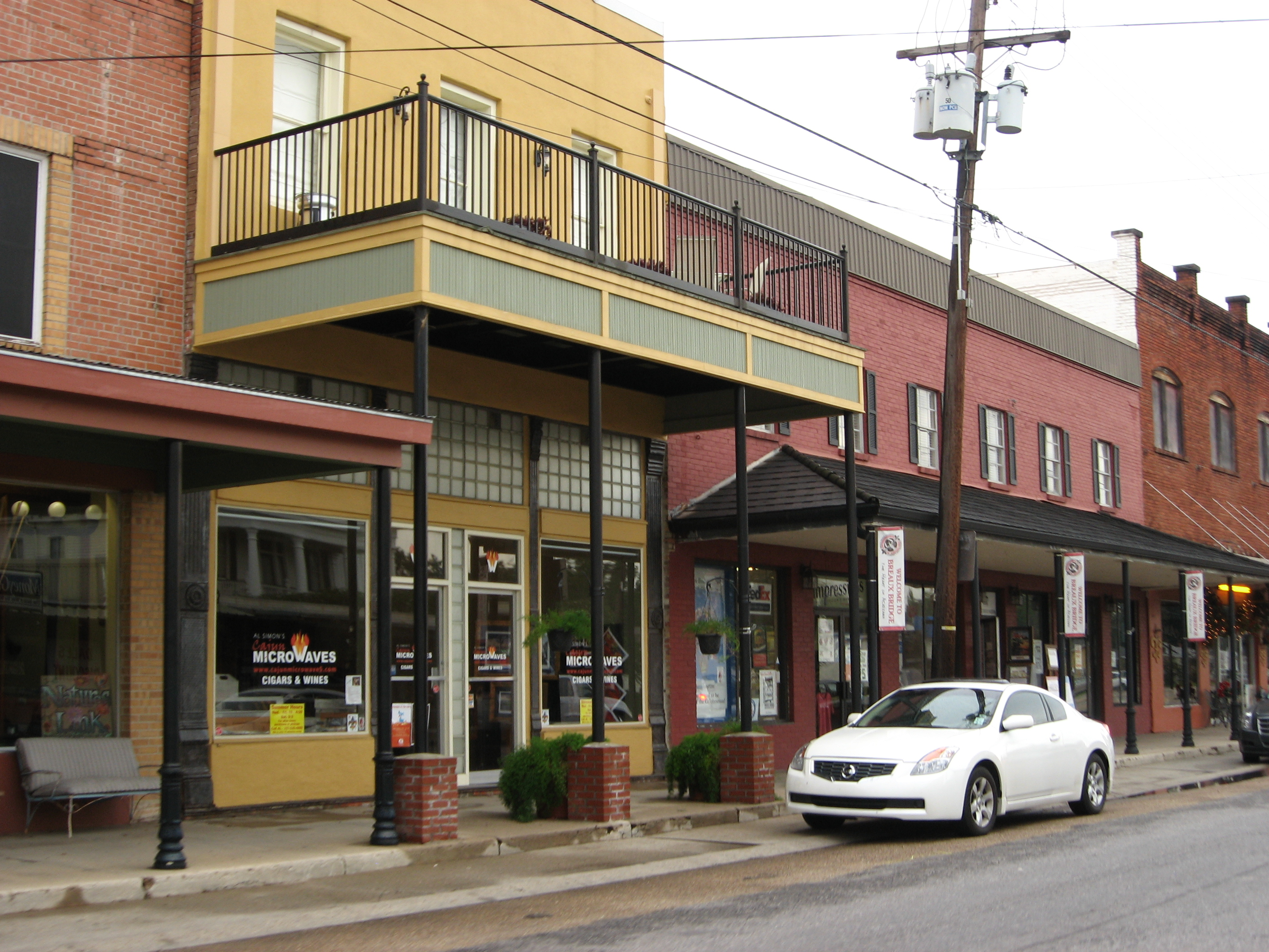 Breaux Bridge is a village in St. Martin Parish, Louisiana, United States. The population was 7,281 at the 2000 census. It is part of the Lafayette Metropolitan Statistical Area. This community is called the "Crawfish Capital of the World", a designation obtained by former Speaker of the Louisiana House of Representatives Robert J. "Bob" Angelle. It is also known for its unusual listing of nicknames in its telephone directory. In 1771, Acadian pioneer Firmin Breaux bought land in present-day city of Breaux Bridge. He purchased the land from Jean François Ledée, a wealthy New Orleans merchant who had acquired the land as a French land grant. By 1774, Breaux's branding iron was registered and by 1786 he was one of the largest property owners in the Bayou Teche country. In 1799, Breaux built a footbridge across the Bayou Teche to help ease the passage for his family and neighbors. This first bridge was a suspension footbridge, likely made of rope and small planks. It was stabilized by being tied to small pilings located at each end of the bridge, as well as to a pair of huge live oak trees on both sides of the bayou. When traveling directions were given, residents would often instruct people to "go to Breaux's bridge...", which eventually was adopted as the city's name[citation needed]. In 1817, Firmin's son Agricole built the first vehicular bridge, allowing for the passage of wagons and increased commerce in the area. The town received its official founding in 1829 when Scholastique Picou Breaux, Agricole's widow, drew up a plan called Plan de la Ville Du Pont des Breaux for the city and began developing the property by selling lots to other Acadian settlers. A church parish was created in 1847 and in 1859, Breaux Bridge was officially incorporated. In 1959, the Louisiana legislature officially designated Breaux Bridge as "la capitale Mondiale de l'ecrevisse" ("the Crawfish Capital of the World").